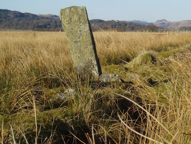 Stone near Crinan Ferry. The OS map doesn't show this as a standing stone, but given the number of archaeological remains all around this area, it may have escaped their notice. Or is it just an old gate post?